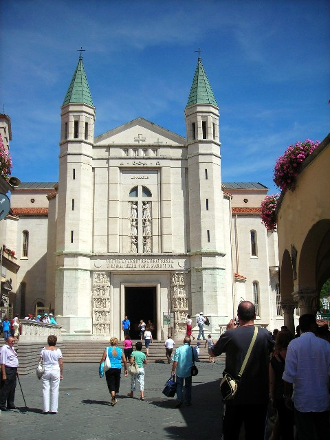 Sanctuary of St. Rita, Cascia, Terni, Umbria, italy